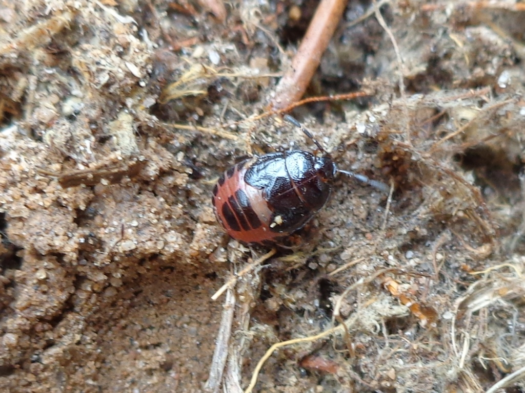 Adomerus biguttatus. Found in Audriņi village near Rezekne city, Latvia